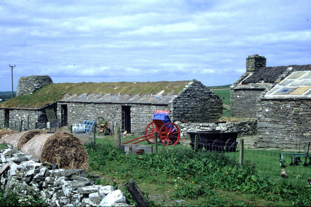 Corrigal Farm Museum. Longhouse with kiln